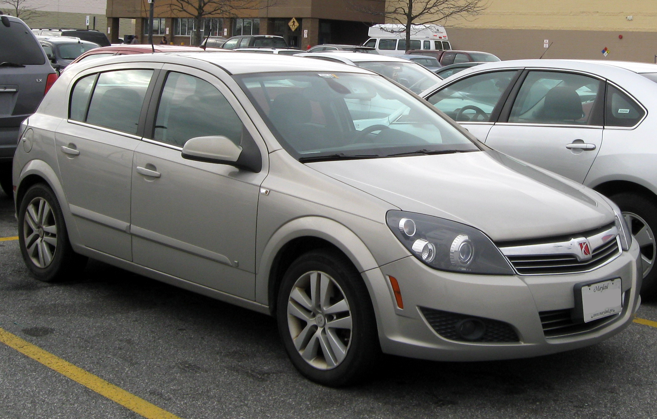 Saturn Astra XR photographed in Clinton, Maryland, USA.